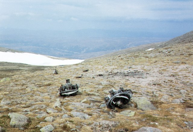 Aircraft remains, Beinn a' Bhuird. High up on the northern slopes of Beinn a' Bhuird, Cairngorms are the remains of Airspeed Oxford PH404, crashed 10th January 1945.